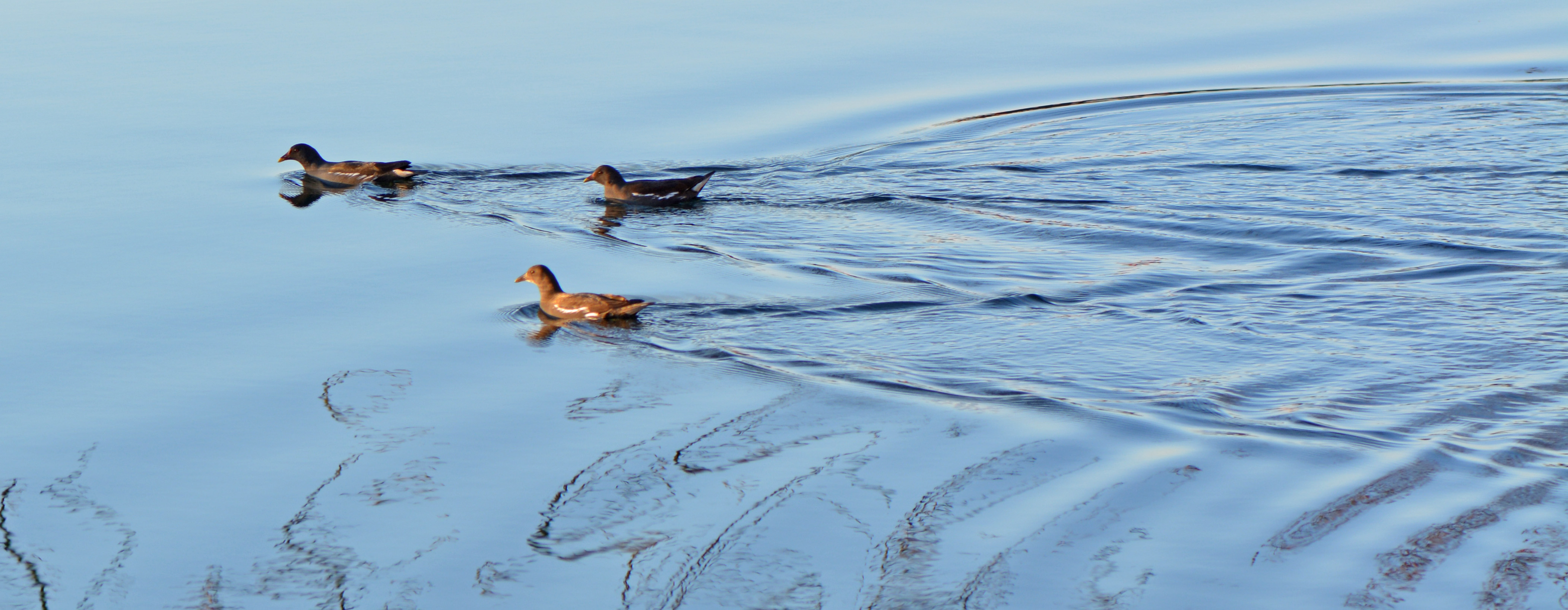 Gallinula chloropus photographed in Lille (Northern France) on the right bank of the Mean-Deûle on December 4, 2016. Circa tens couples are established on this urban section (but close to the wood of the citadel and surrounded by open and grassed environments) of this Deûle (section about one km long).